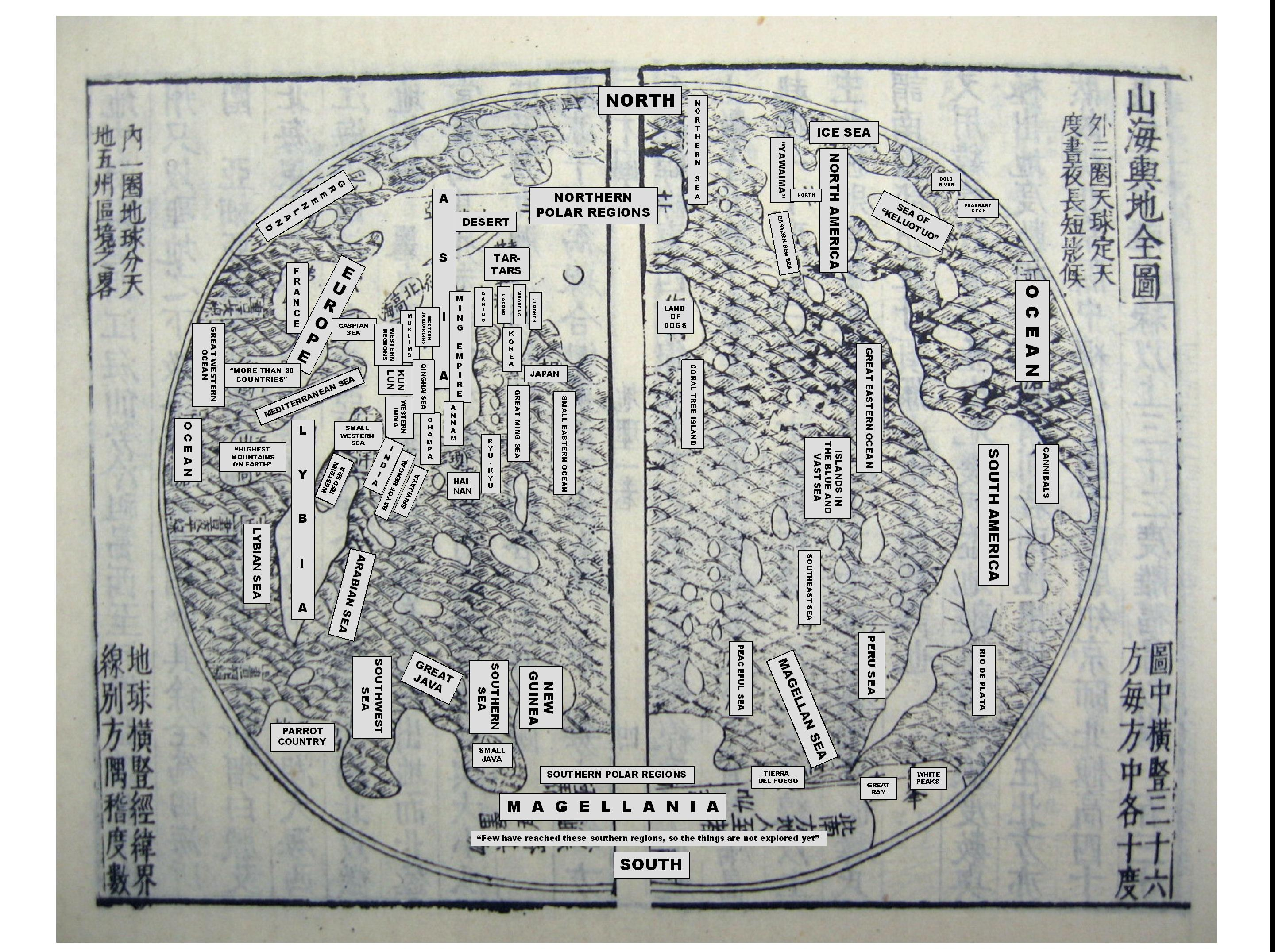 Translation of the Shanhai Yudi Quantu map (China, 1606)